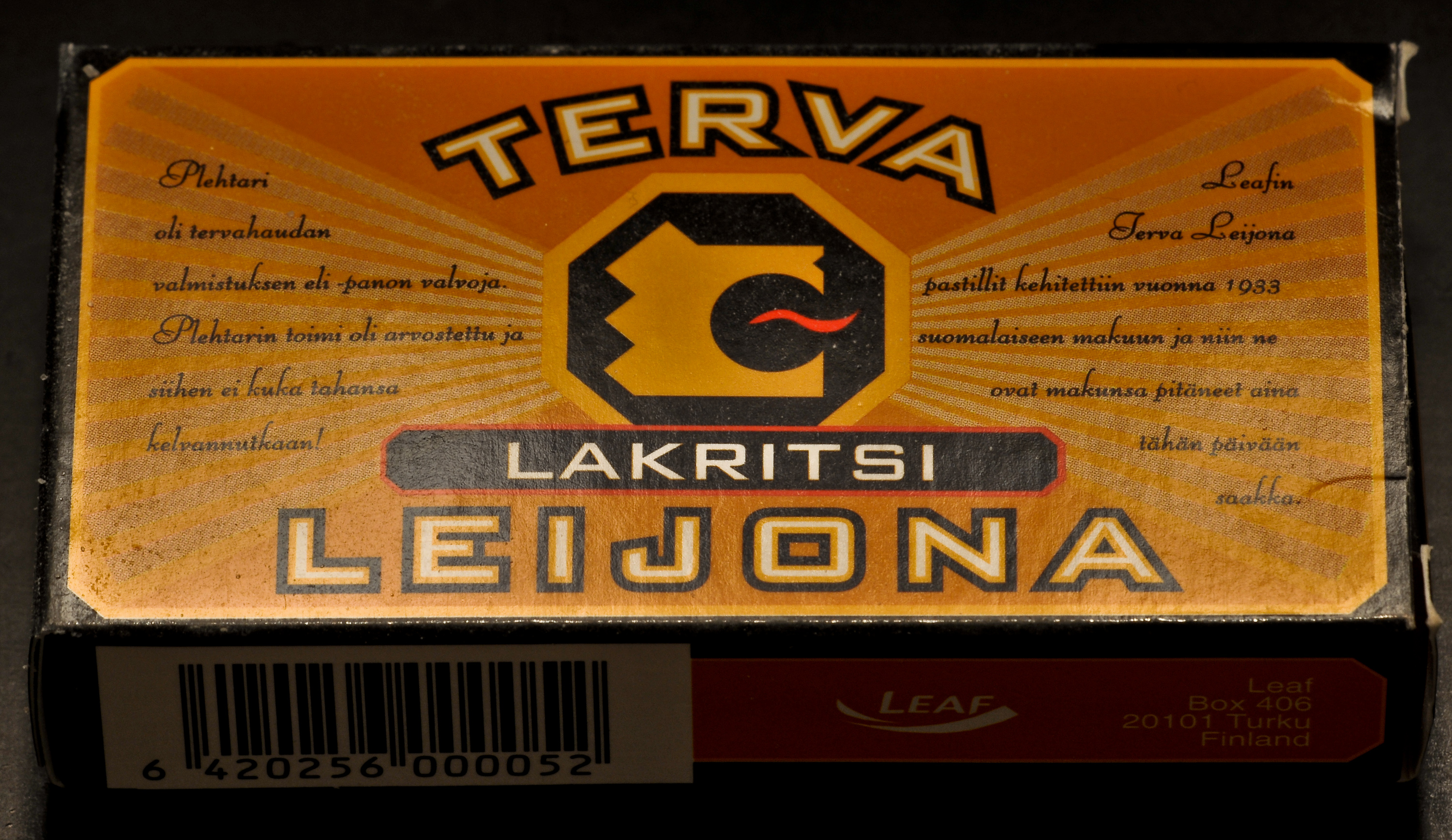 Terva Leijona. Finnish liquorice candy with tar taste.